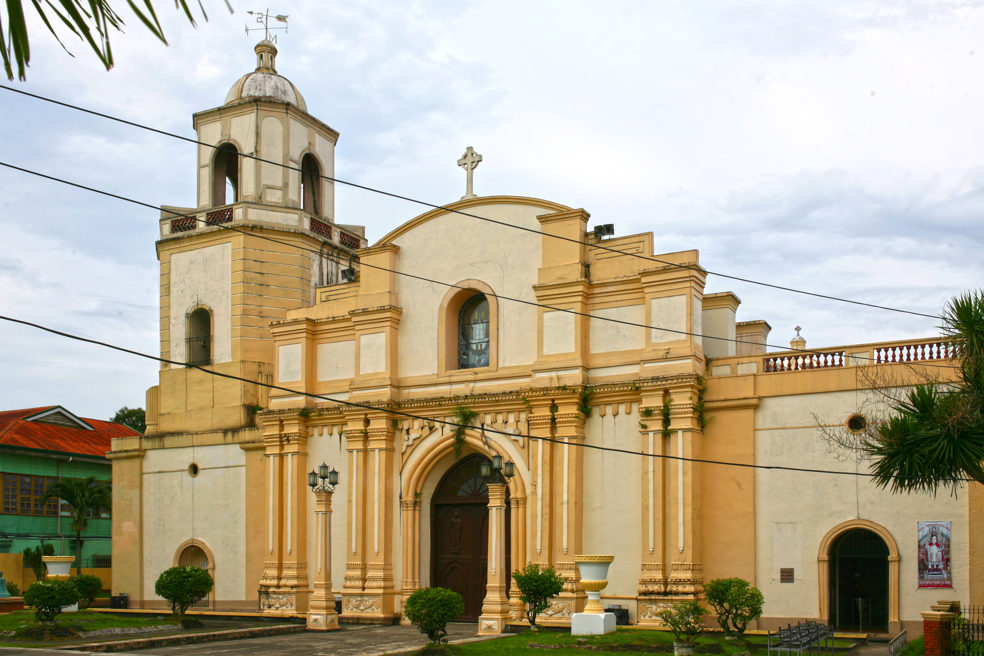 Cathedral of San Juan in Kalibo, Aklan, Filipinas, the Philippines